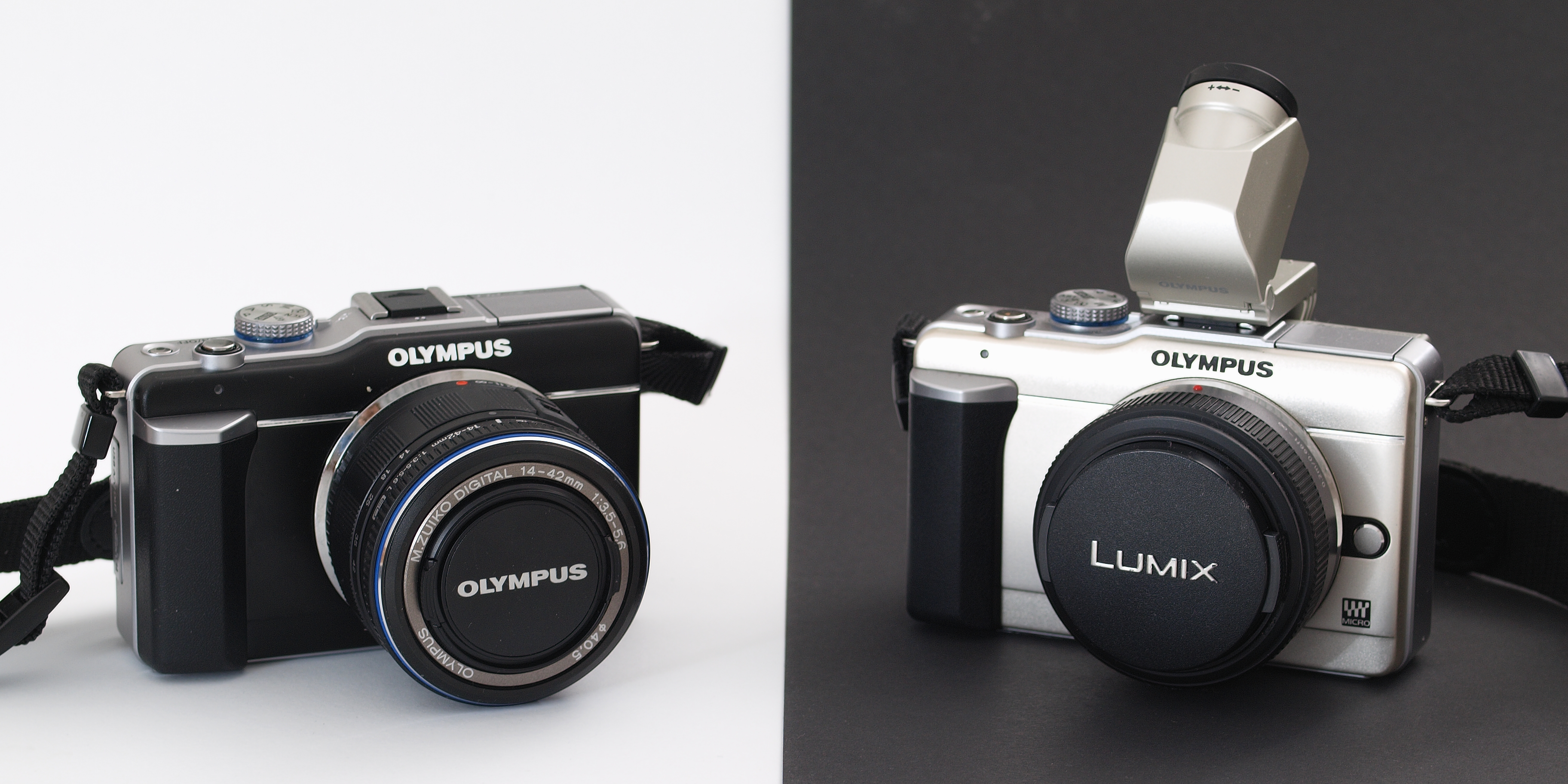 Two Olympus E-PL1 cameras